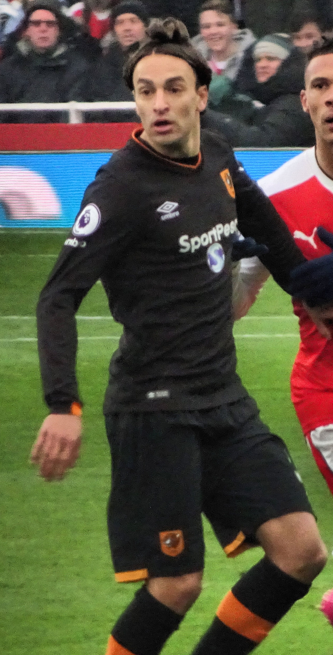 Lazar Marković playing for Hull City against Arsenal at the Emirates Stadium, London on 11 February 2017